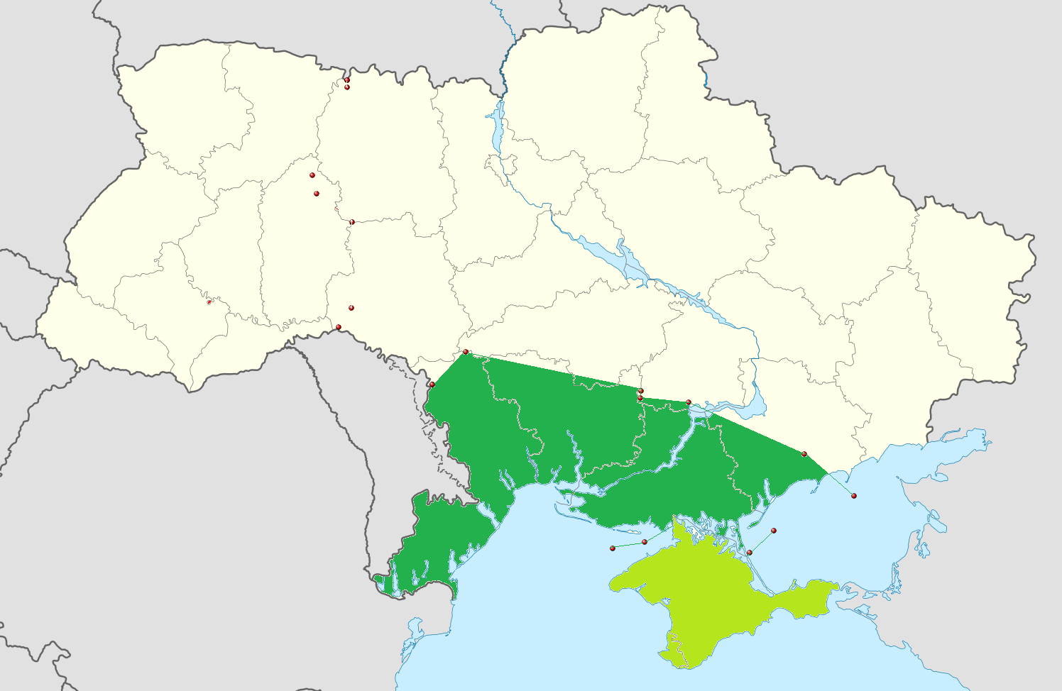 Повітряний простір України поділяється на три військово-повітряні зони та один окремий військово-повітряний район, межами яких є умовні вертикальні поверхні, що проходять по лінії державного кордону України на суші, морі, річках, озерах, інших водоймах та по прямих лініях між визначеними географічними точками з урахуванням повітряного простору над тимчасово окупованою територією України. Військово-повітряні зони є зонами відповідальності повітряних командувань "Захід", "Південь" та "Центр"